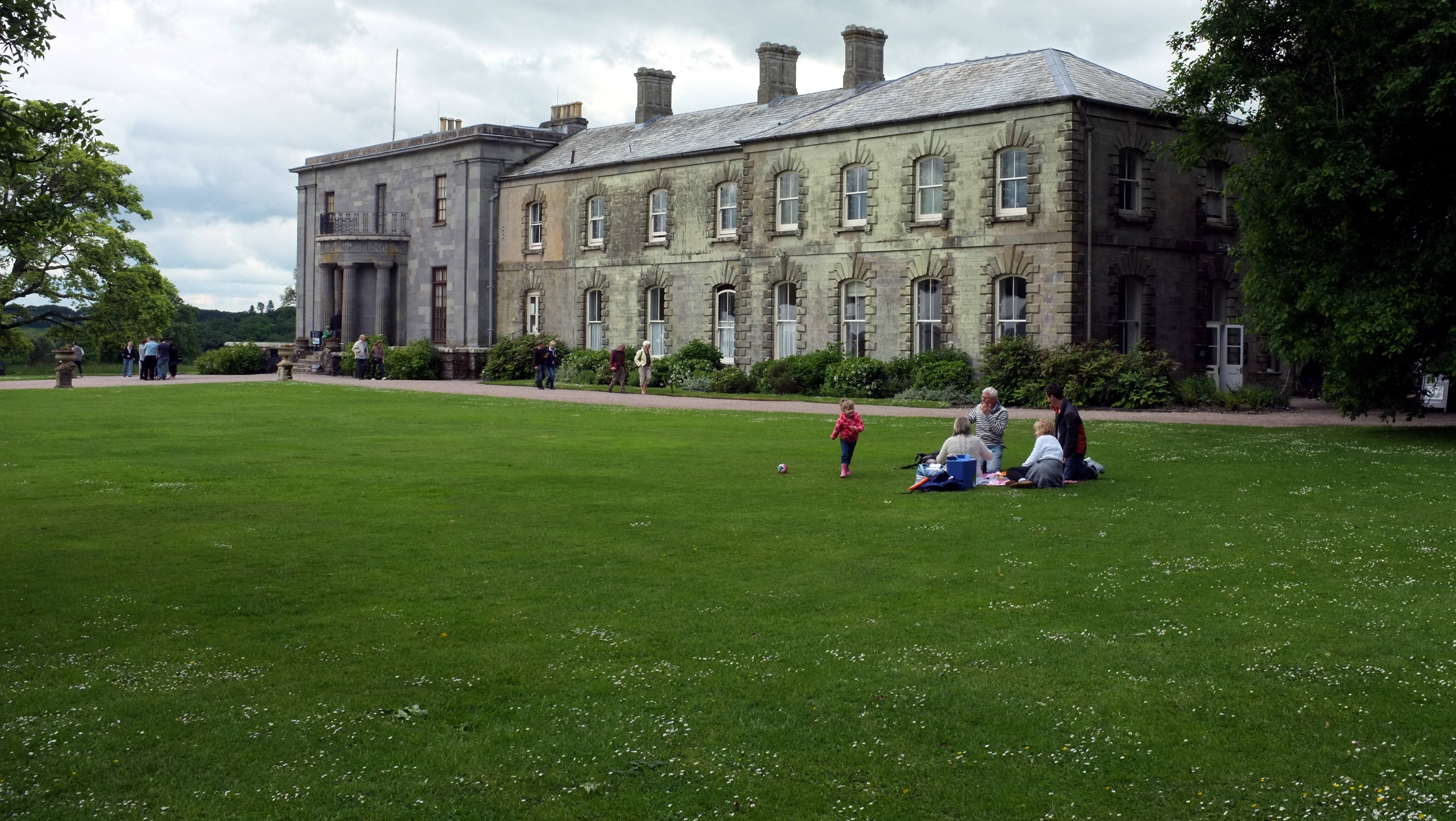 Arlington Court